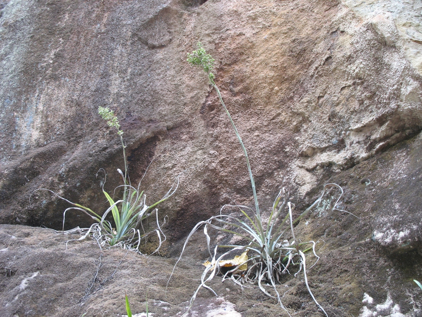 Fosterella albicans, in habitat in Bolivia, exact location unknown.